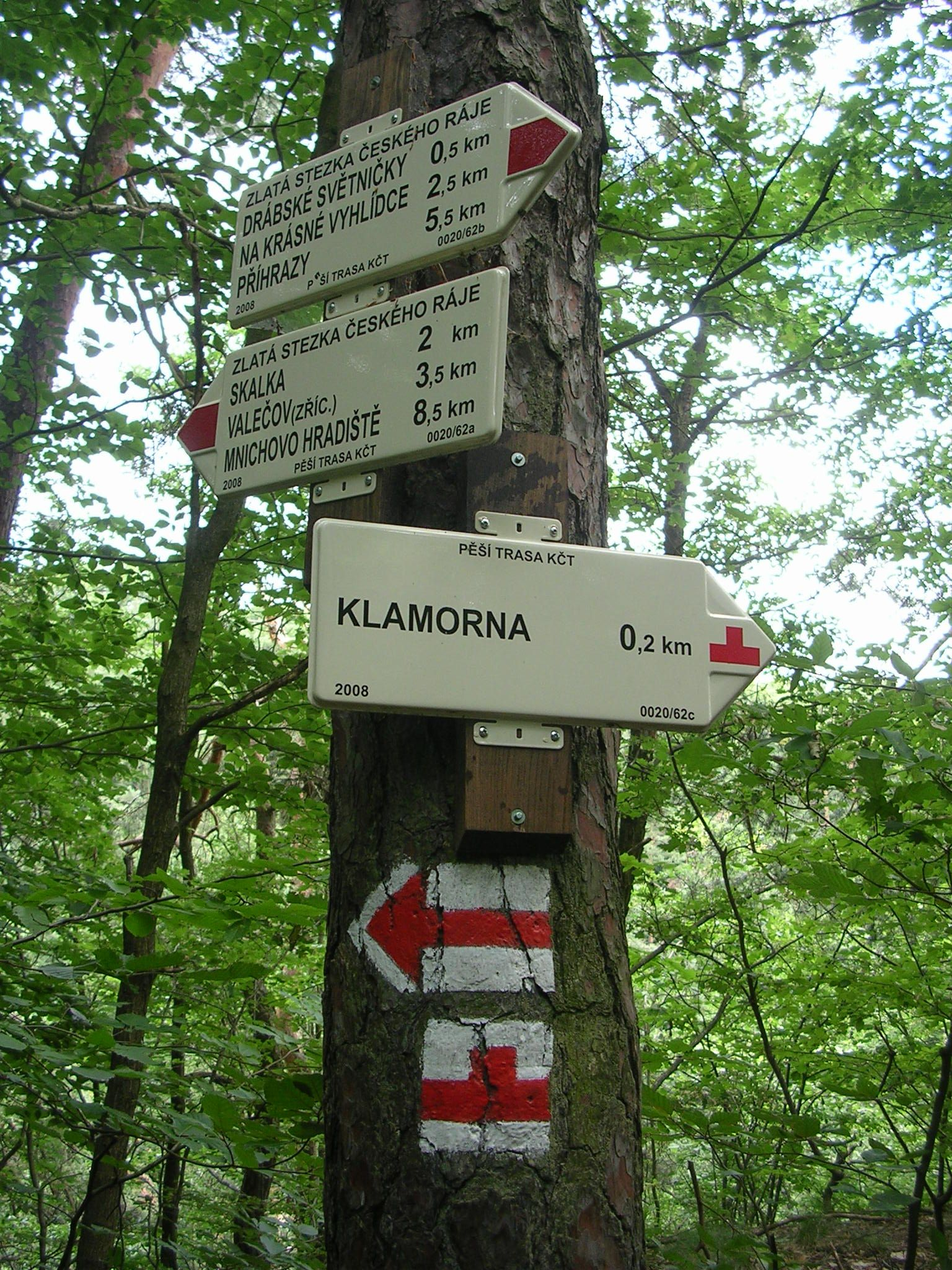 Mladá Boleslav District, Central Bohemian Region, the Czech Republic. Klamorna Castle.